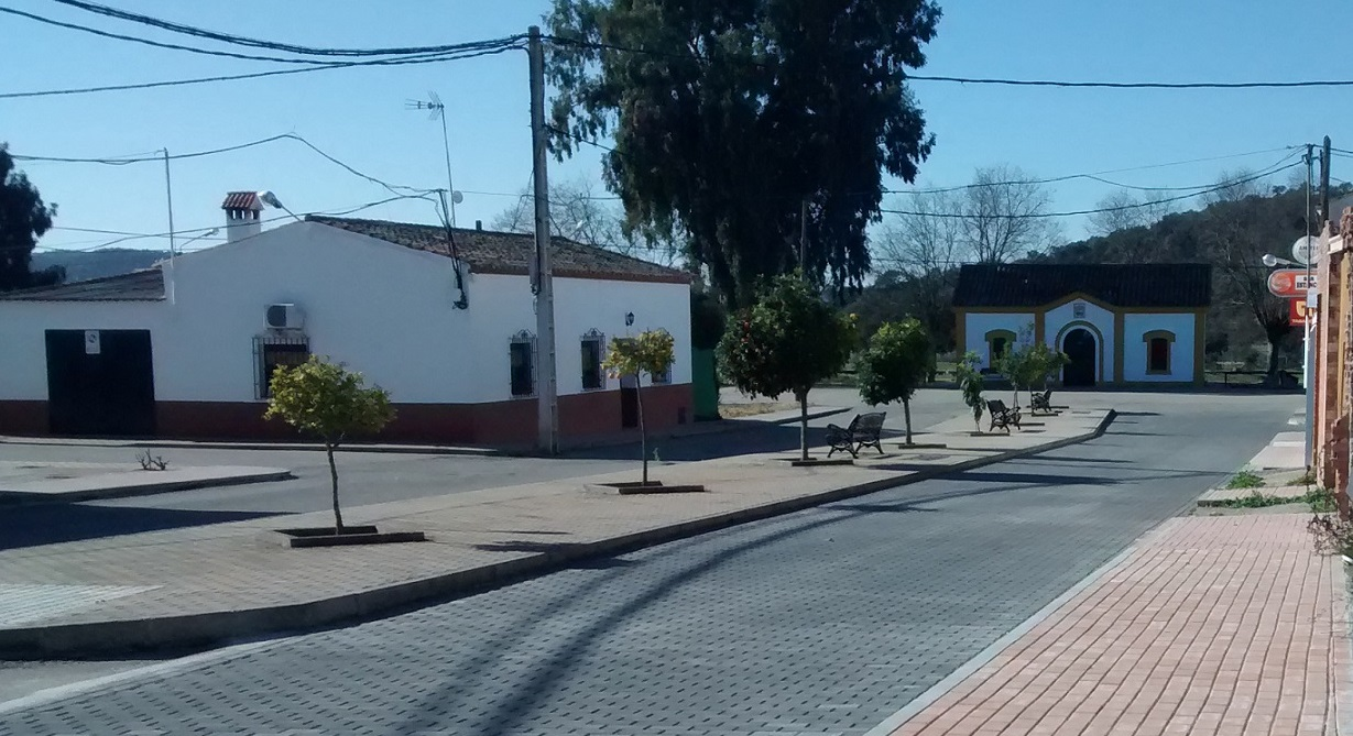 Railway station of "El Vacar", Córdoba, Spain